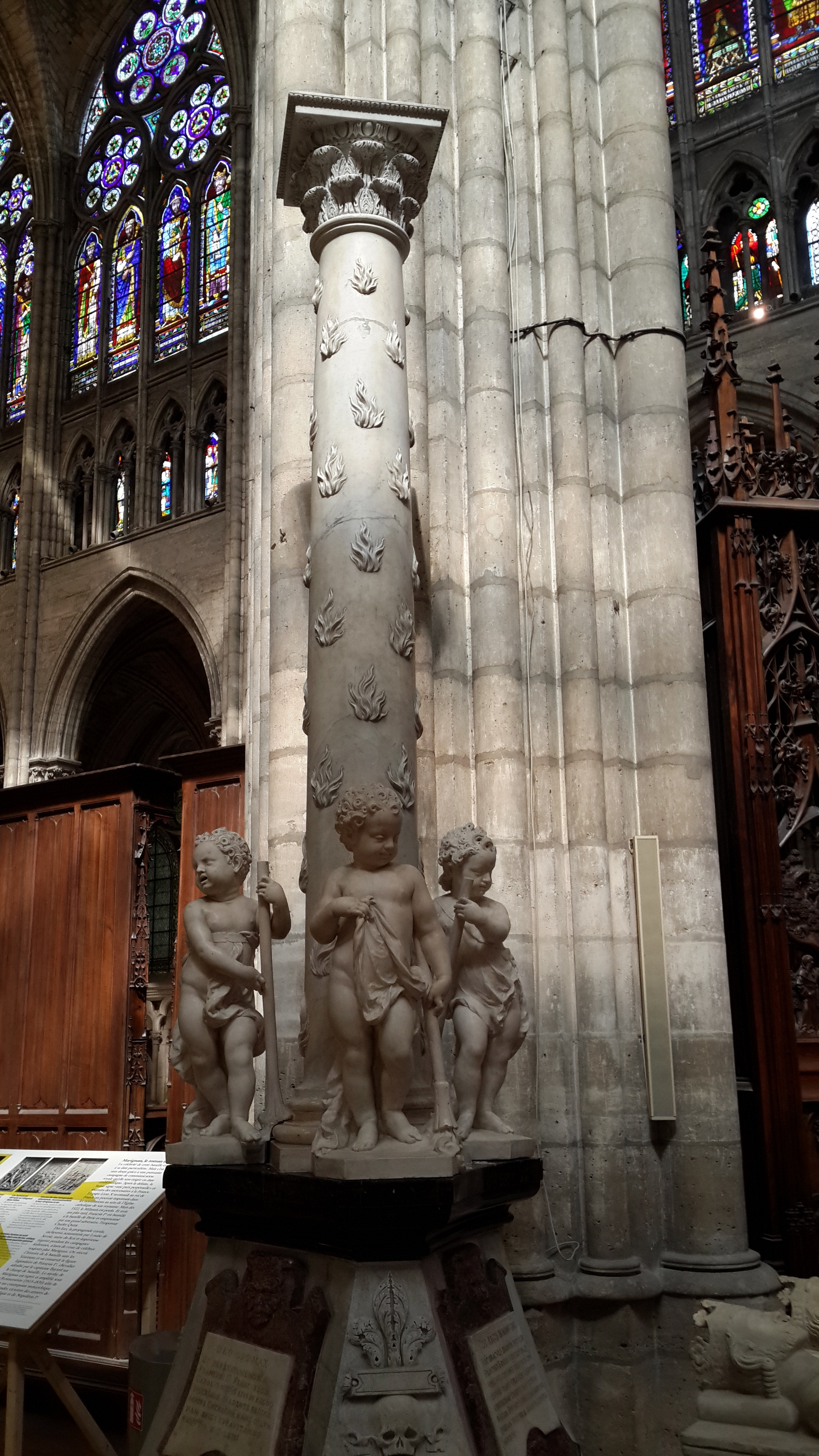 Monument funéraire de François II